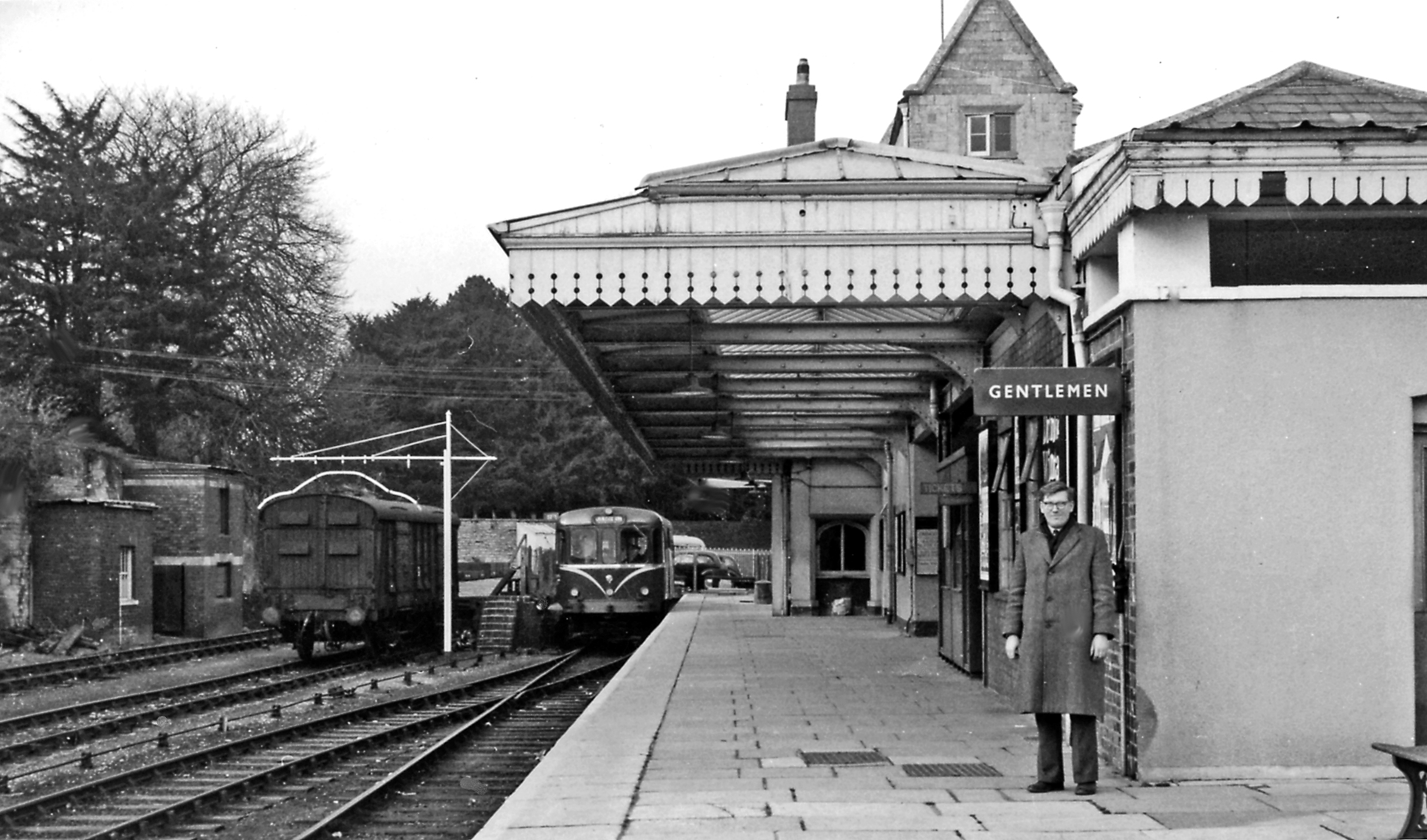 Cirencester Town Station. View northward, to buffer-stops: ex-GWR terminus of the branch from Kemble. Conveniently in the centre of the town, the closure of this station and branch (for passengers on 6/4/64, to goods on 4/10/65) was quite unjustified and much lamented. The Diesel-car used latterly is seen at the buffers.